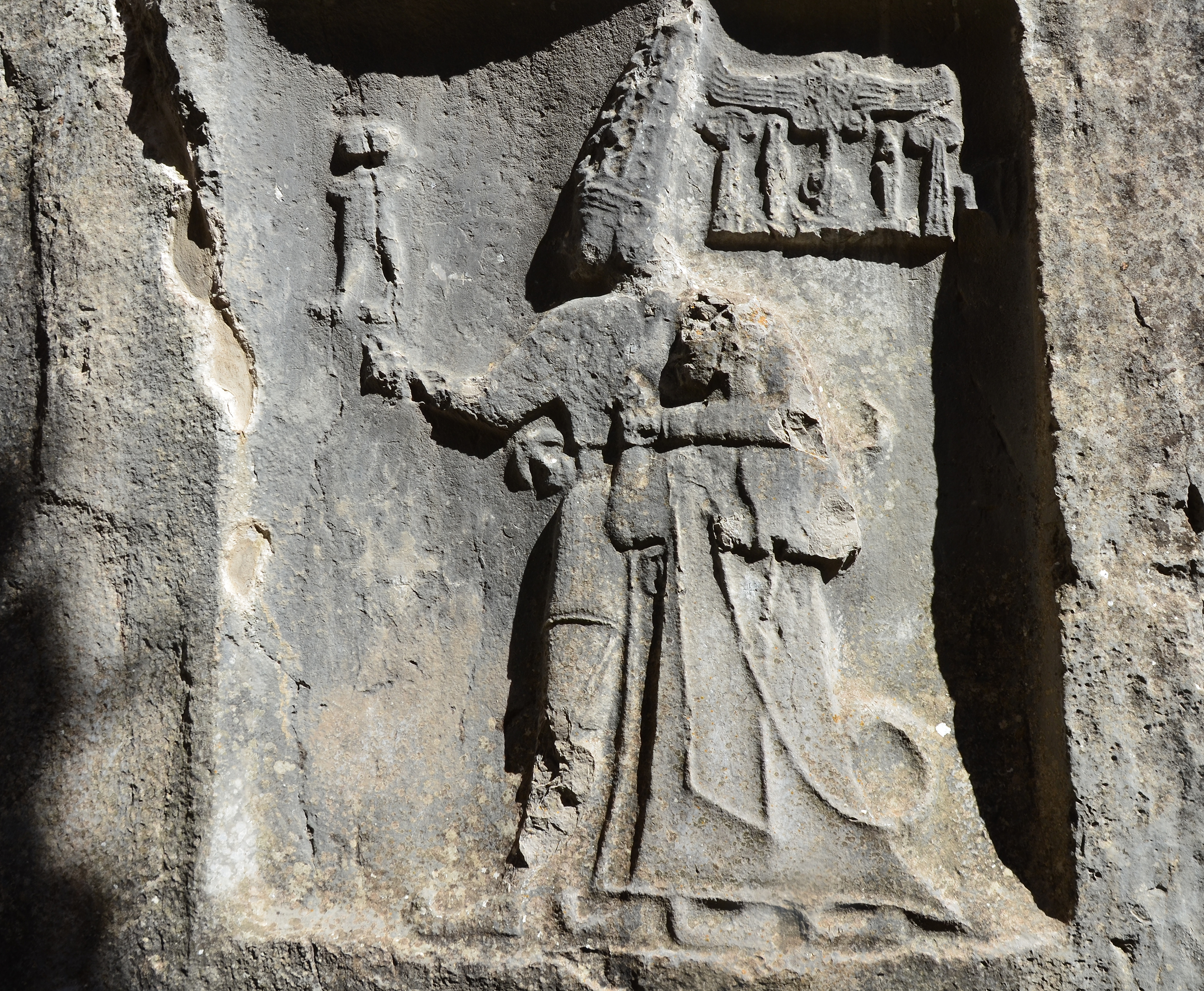 East wall of Chamber B depicting in a niche the God Sharruma (son of the Thunder God Teshub) embracing King Tudhaliya IV, Yazılıkaya, the Hittite sanctuary of Hattusa, Turkey